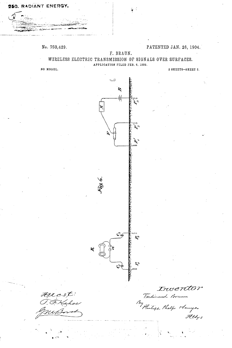 Ferdinand Braun's Radiant Energy Patent US750429